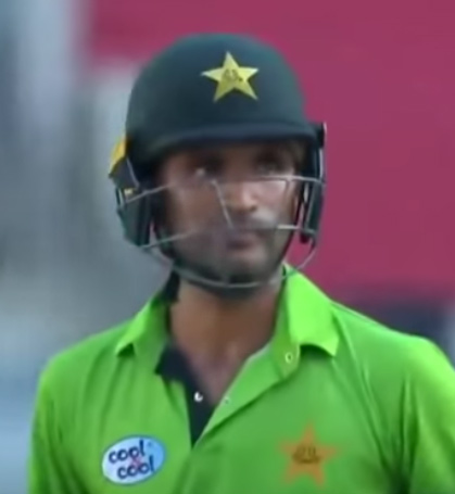 Fakhar Zaman batting during the cricket match, Pakistan vs Sri Lanka, October 2017